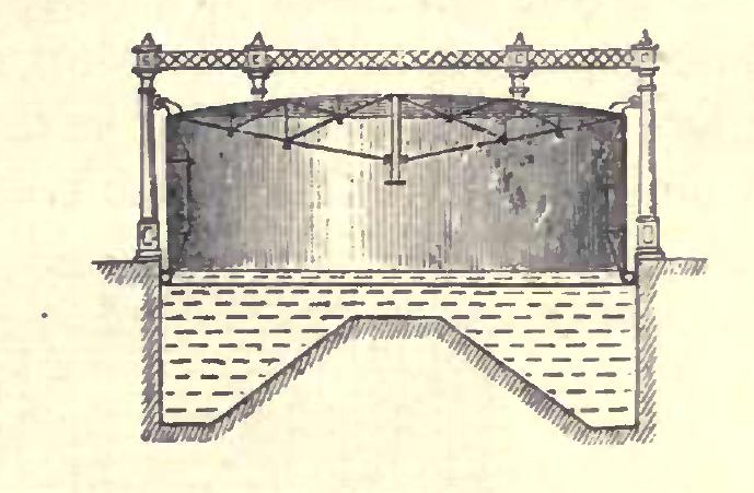 Gasholder